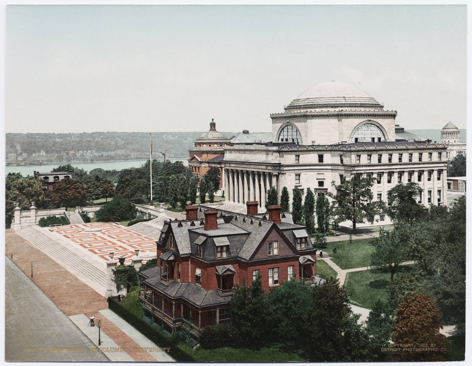 A photochrom postcard published by the Detroit Photographic Company, c.1902-05. Left to right: Earl Hall, Low Memorial Library,Nuell Hall.